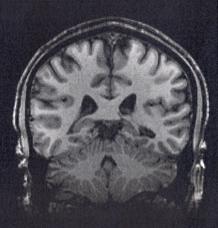 This is an fMRI scan of brain on the coronal axis. An fMRI scan basically images the spins of protons in the brain, allowing us to track the blood oxygen-level dependent (BOLD) signal which is assumed to be correlated with neural activity.